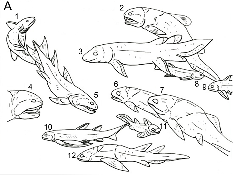 An examination of the Devonian fishes of Michigan